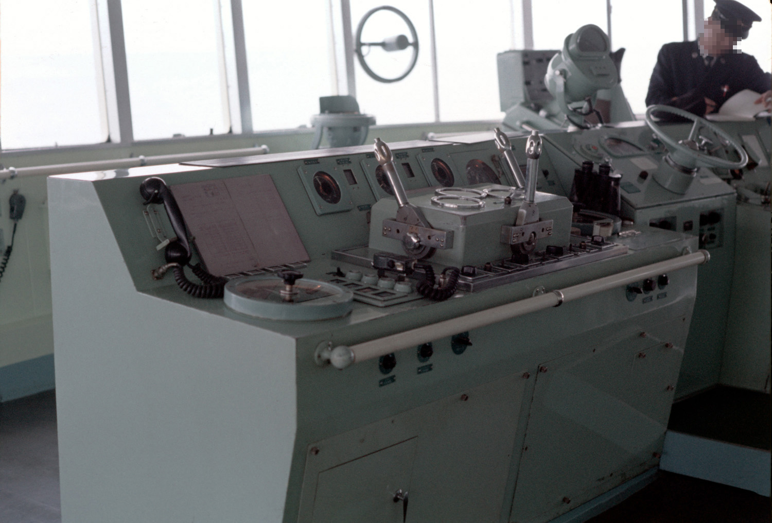 MS TAISETSU MARU2 propeller control console Original Box type